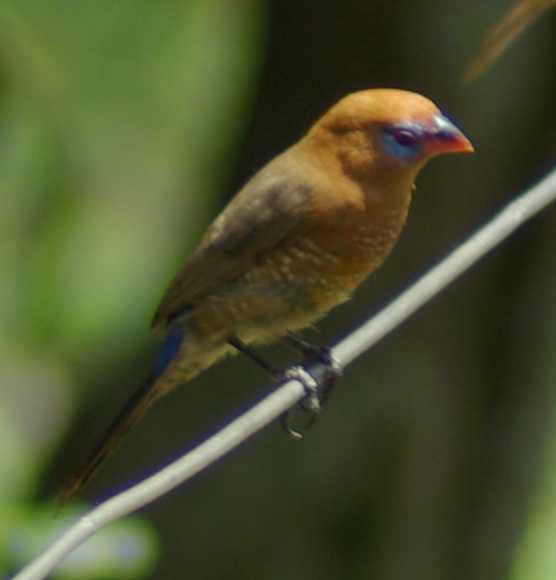 Adult female Purple Grenadier, Uraeginthus ianthinogaster, Masai Mara, Kenya. The time stamp is 10 hours too early.